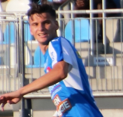 league match Austria 2nd league